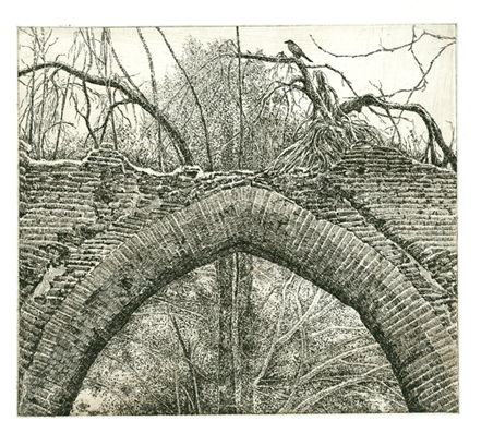 Ruin Ammerzoden, Netherlands